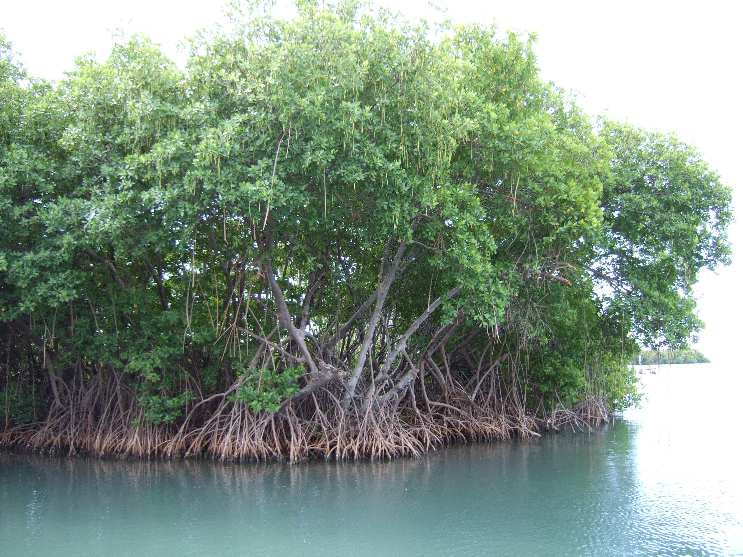 Photo of some mangroves in the Salinas Estuary in Salinas, Puerto Rico.